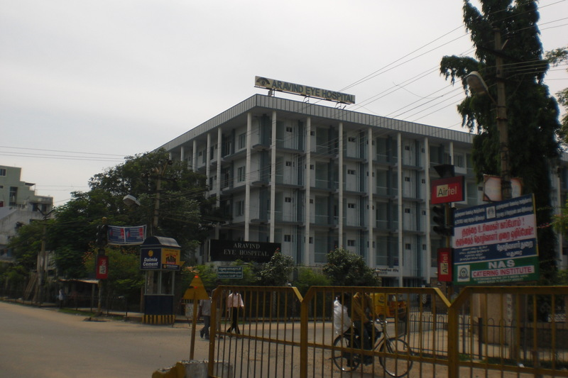 Aravind hospital